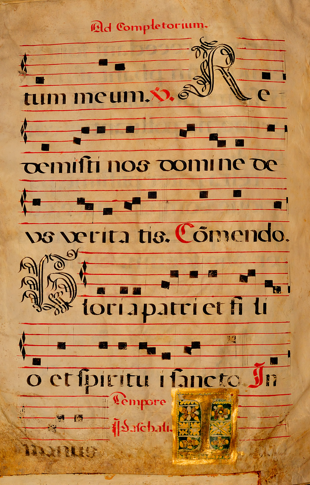 No known copyright restrictions. Please credit UBC Library as the image source. For more information, see Notes: Ad Completorium or Compline, nightly prayers. Creator: Catholic Church Date Created: [between 1575 and 1625?] Source: University of British Columbia Library - Rare Books and Special Collections Permanent URL